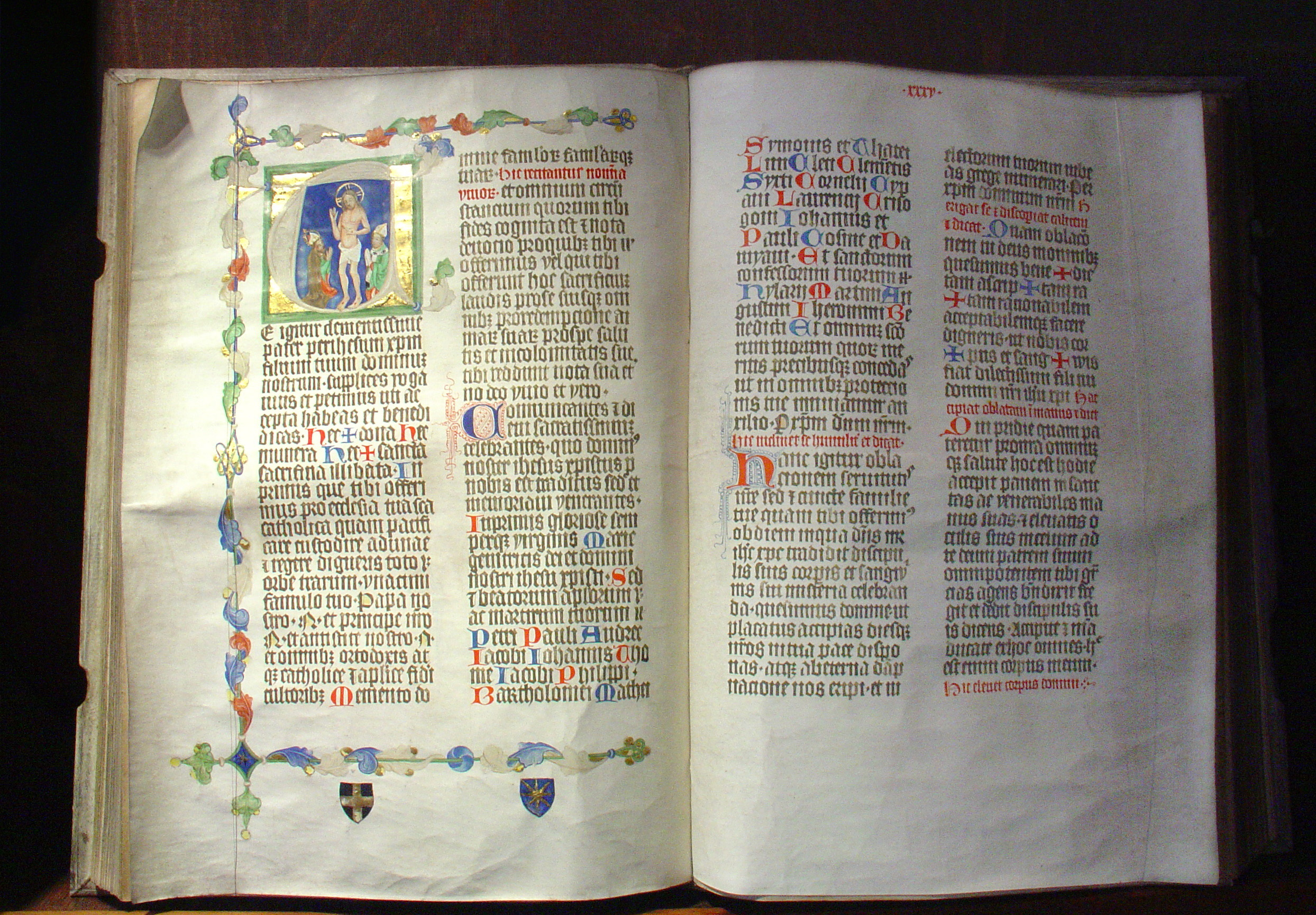 Albert de Sternberg's Liber Pontificalis, 1376. The miniature shows the emperor Charles IV and Albert of Sternberg, LITOMYŠL's bishop who asked for this book. Exposed in Strahov monastary's library, Prague.